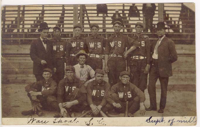 Early photo of the Ware Shoals Baseball Team, ca. 1910. Photo by William M. Pittendreigh, Sr., used by permission of the Pittendreigh Estate.